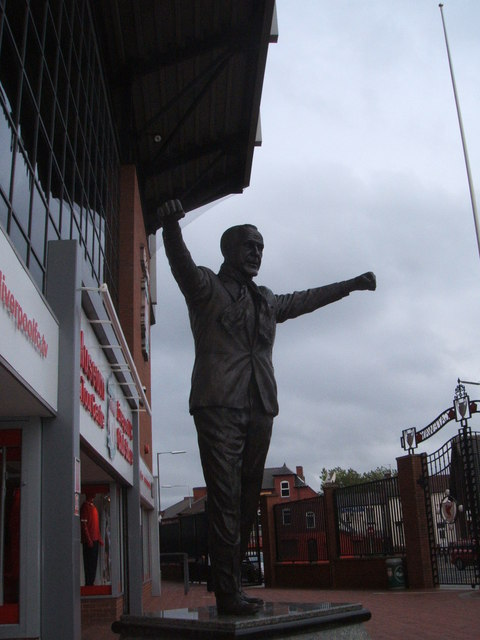 Bill Shankly